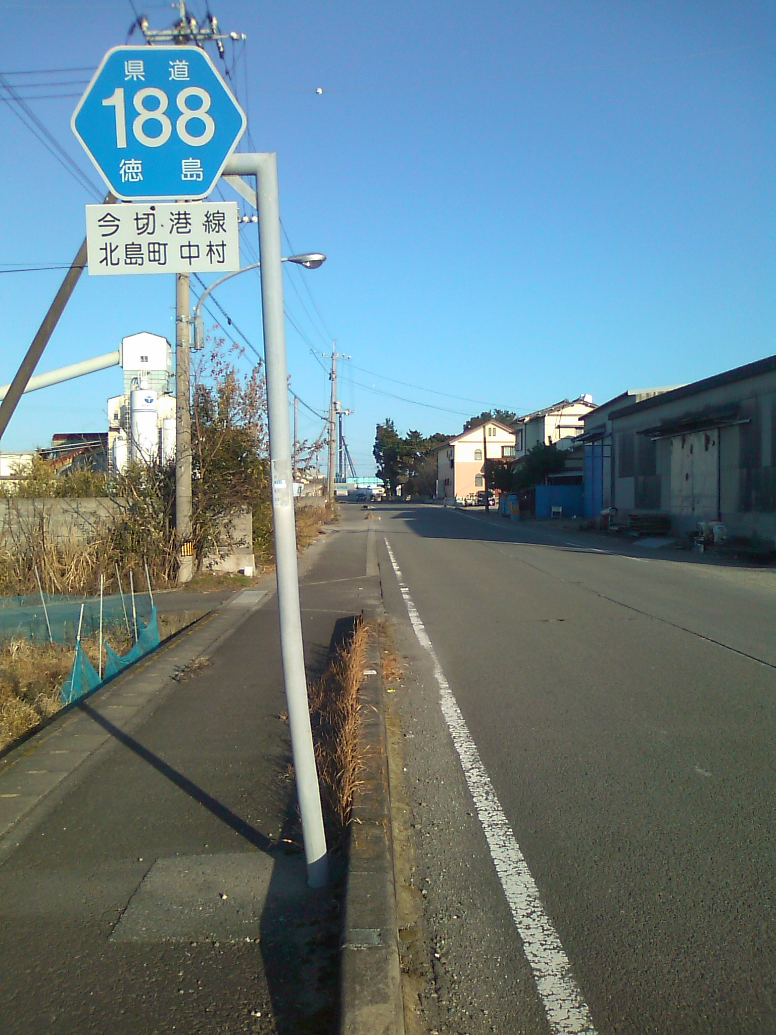 Tokushima Prefectural Road 188, Japan